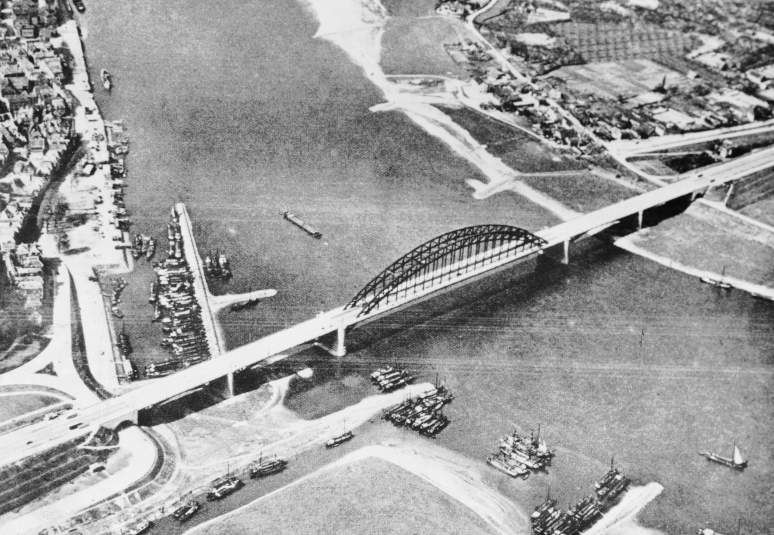 An aerial view of the bridge across the Waal River at Nijmegen. 17 - 20 September 1944